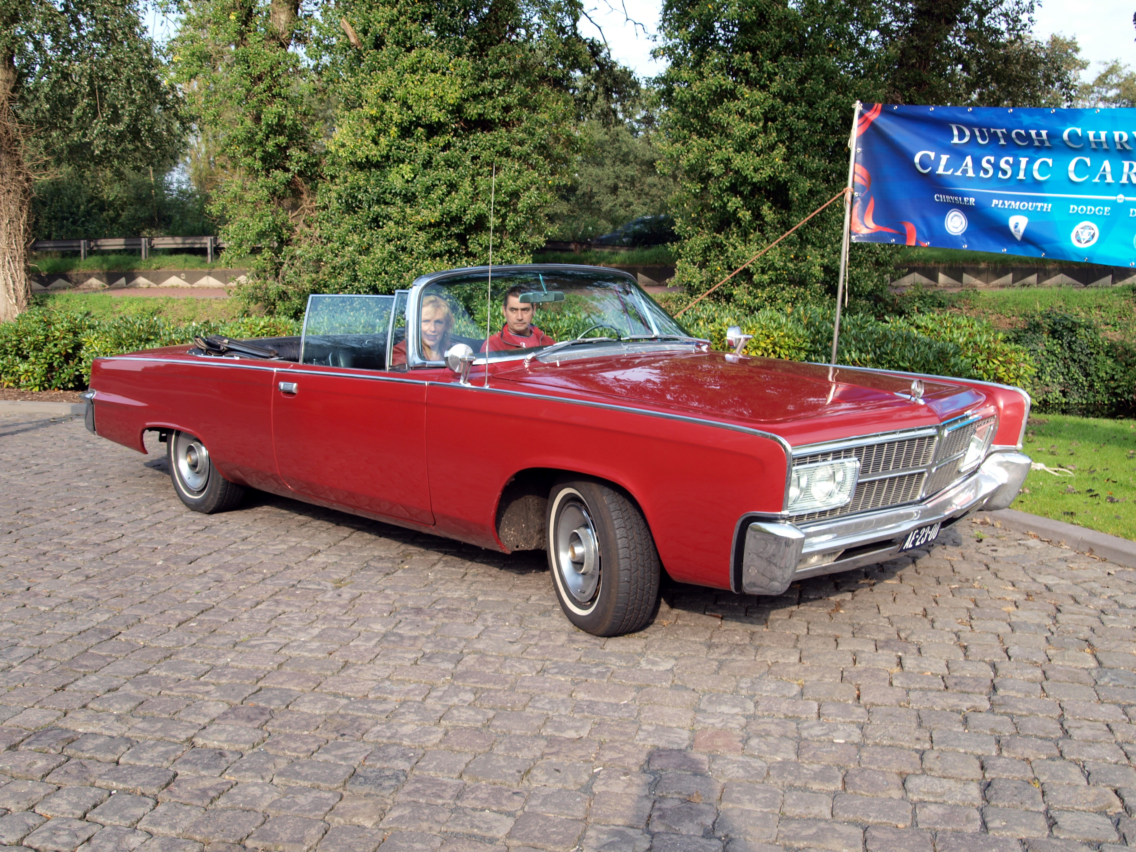 Photographed at the premmesis of the Louwman museum, The Hague, The Netherlands. OLYMPUS DIGITAL CAMERA